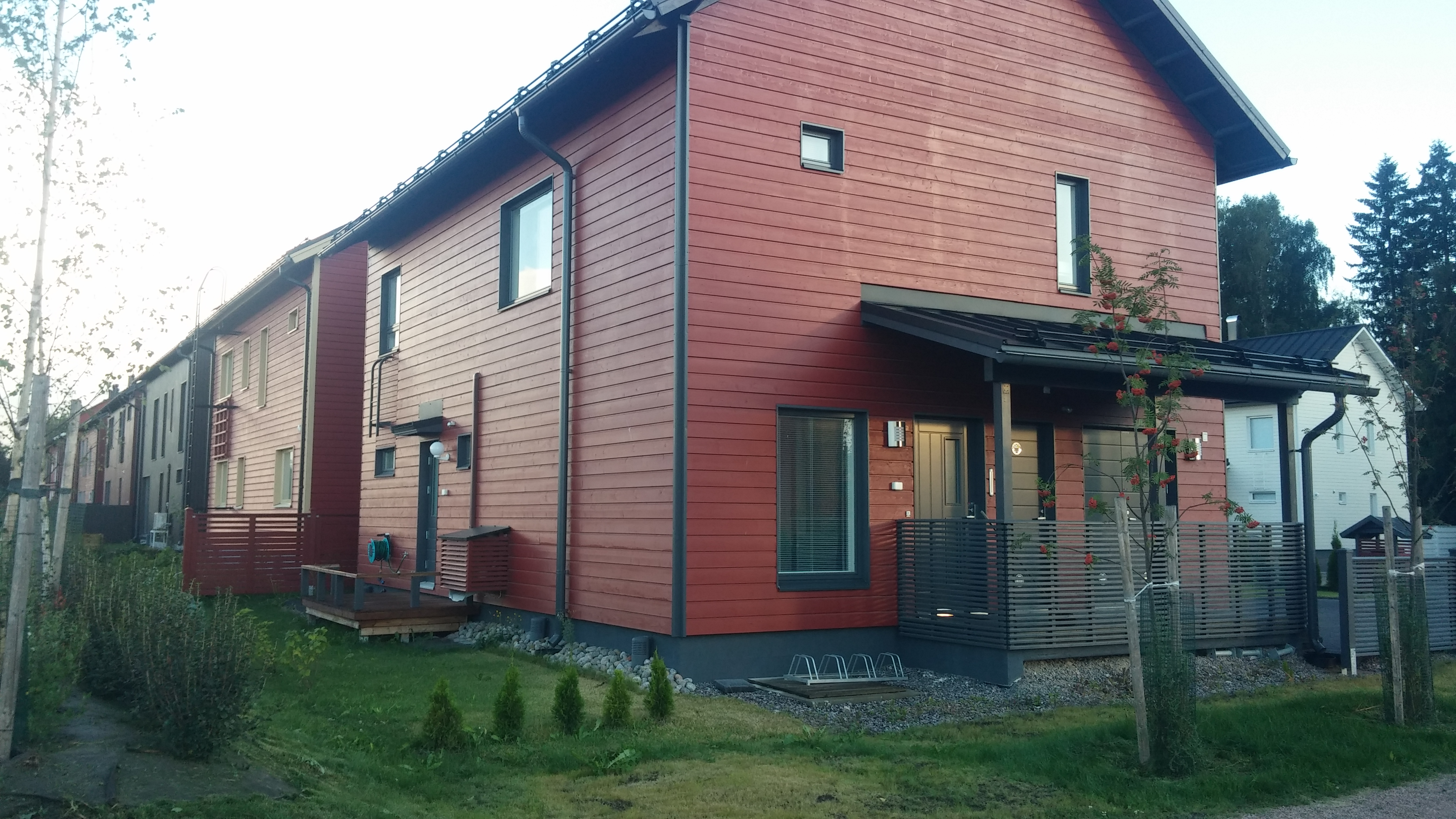 Helsinki-talo